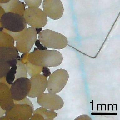 Eggs of Ctenolepisma lineata pilifera. Embryos of various developmental stages are diaphanous. Opaque inky small granules are feces of its parents.